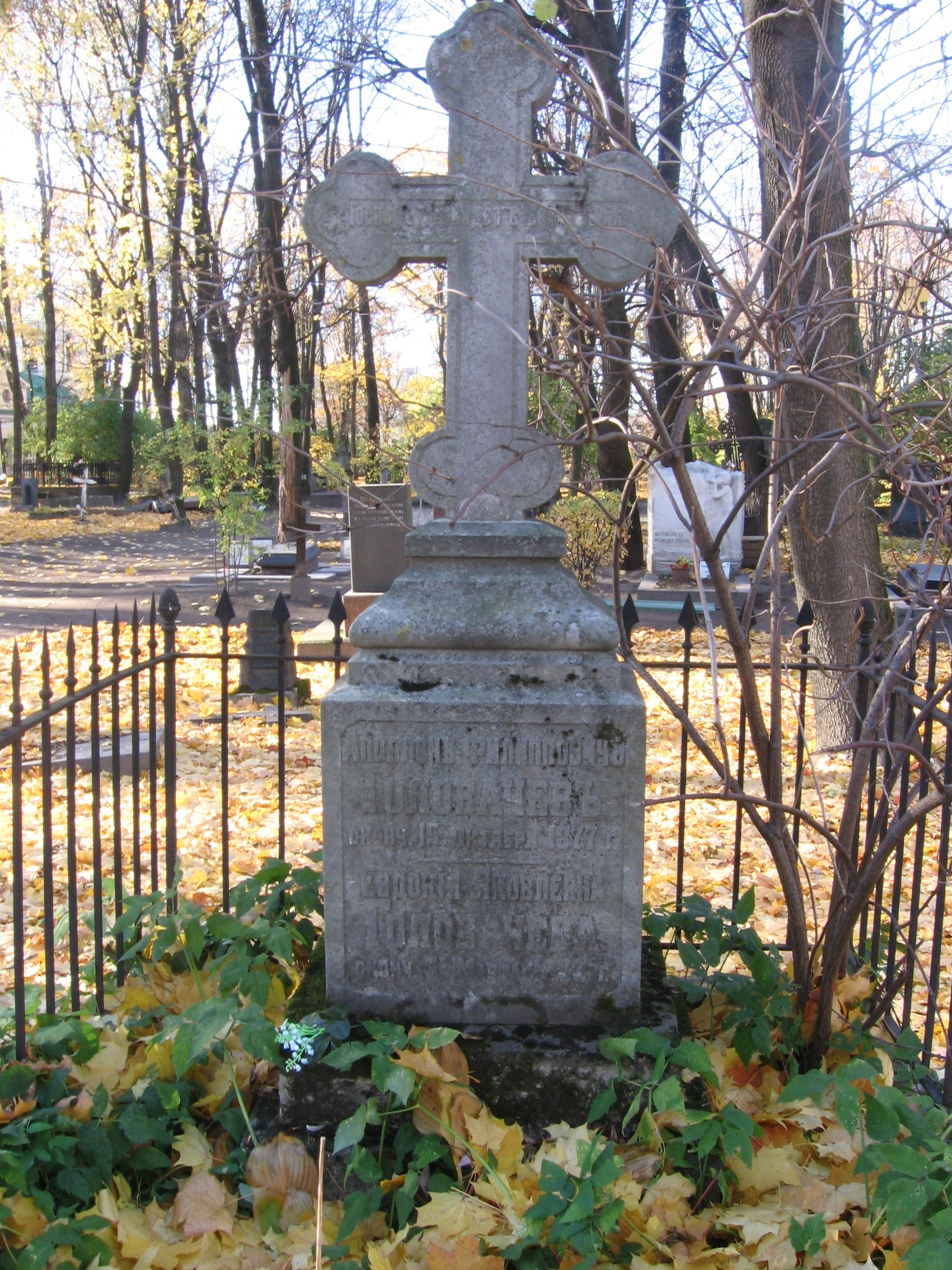 Grave of Apollon Golovachyov and Eudoxie Panayeva